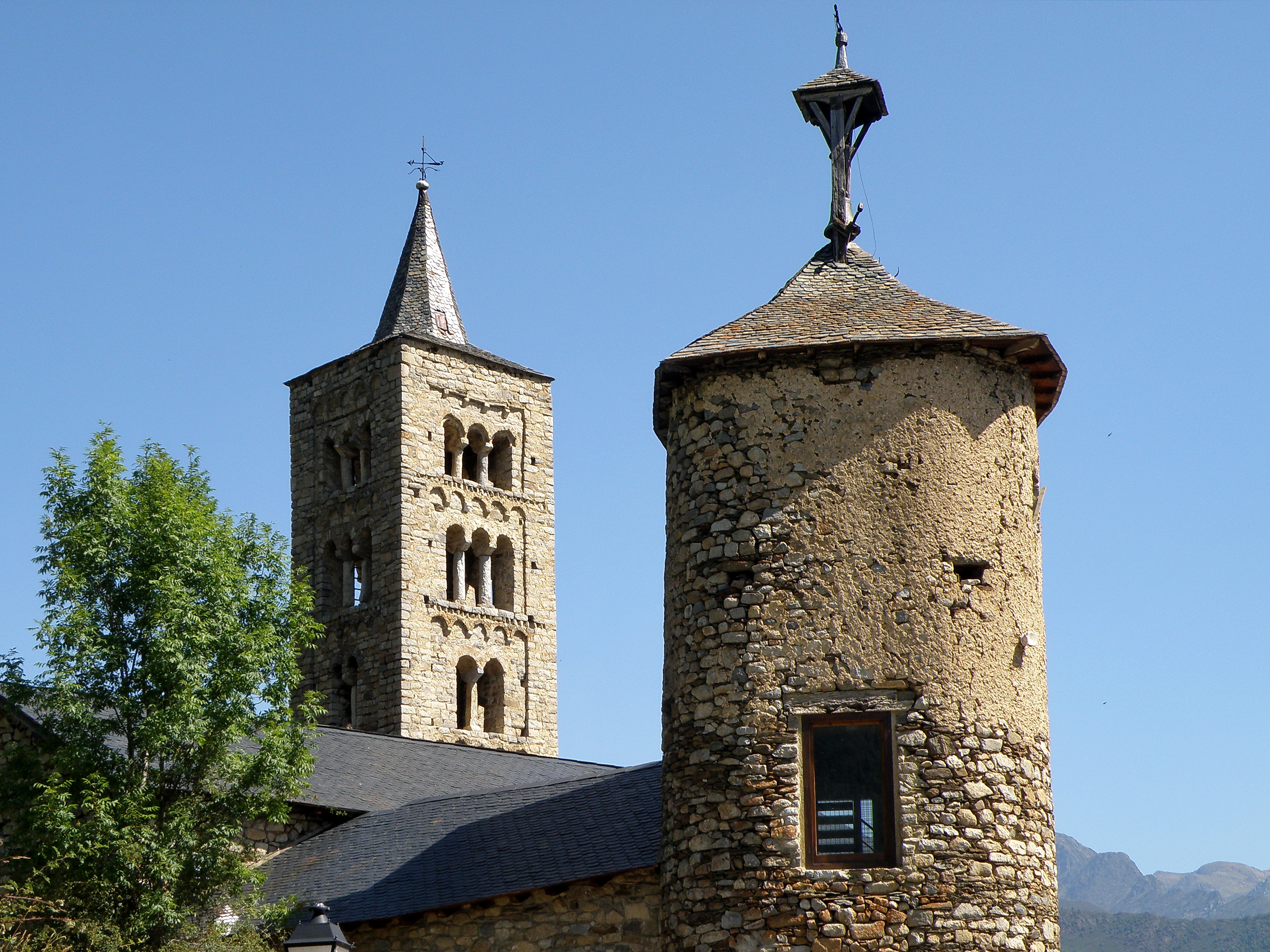 Son: Belltower of romanesque church of St. Just and St. Pastor on the left and belfry on the right